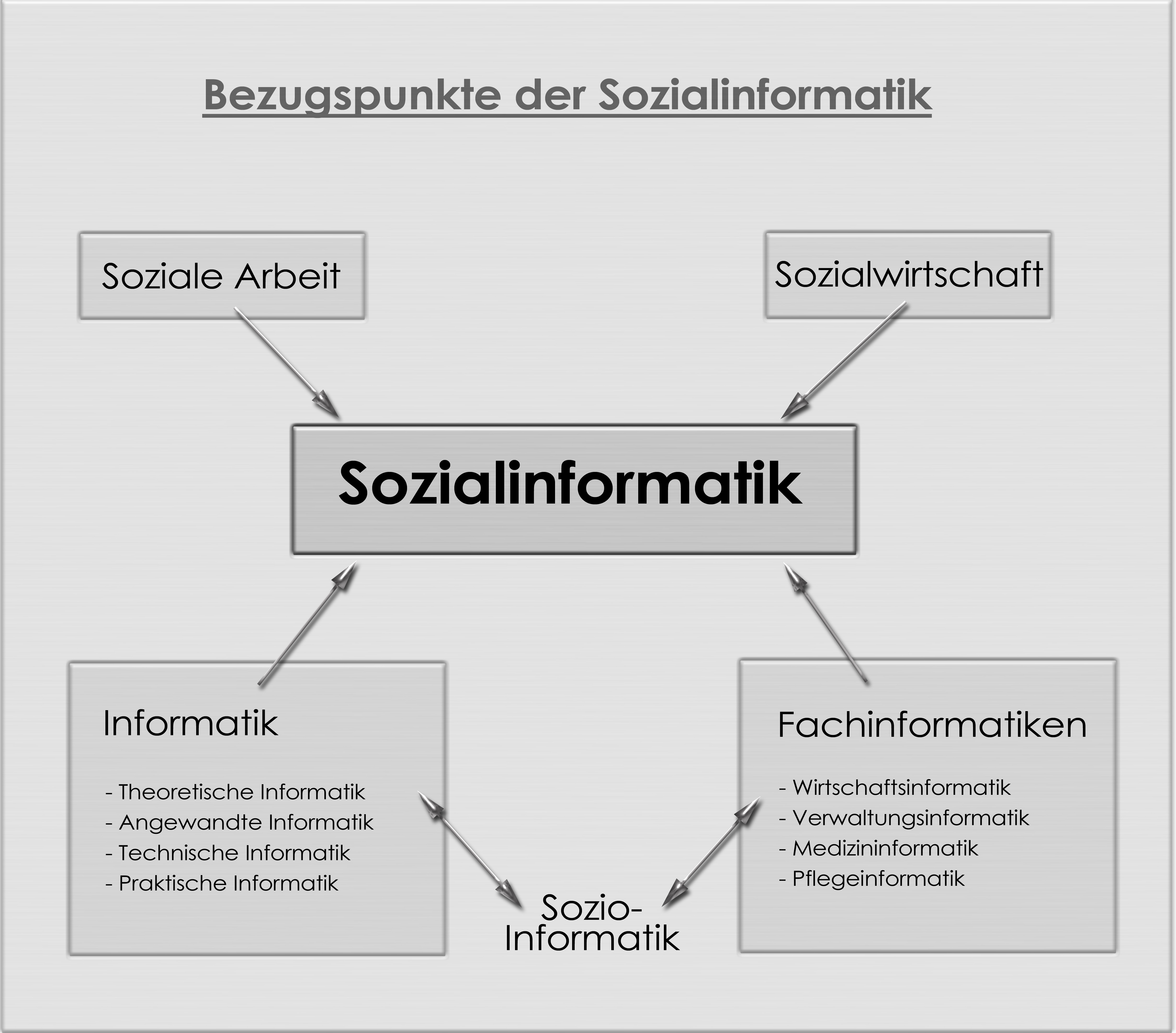 Bezugspunkte der Sozialinformatik